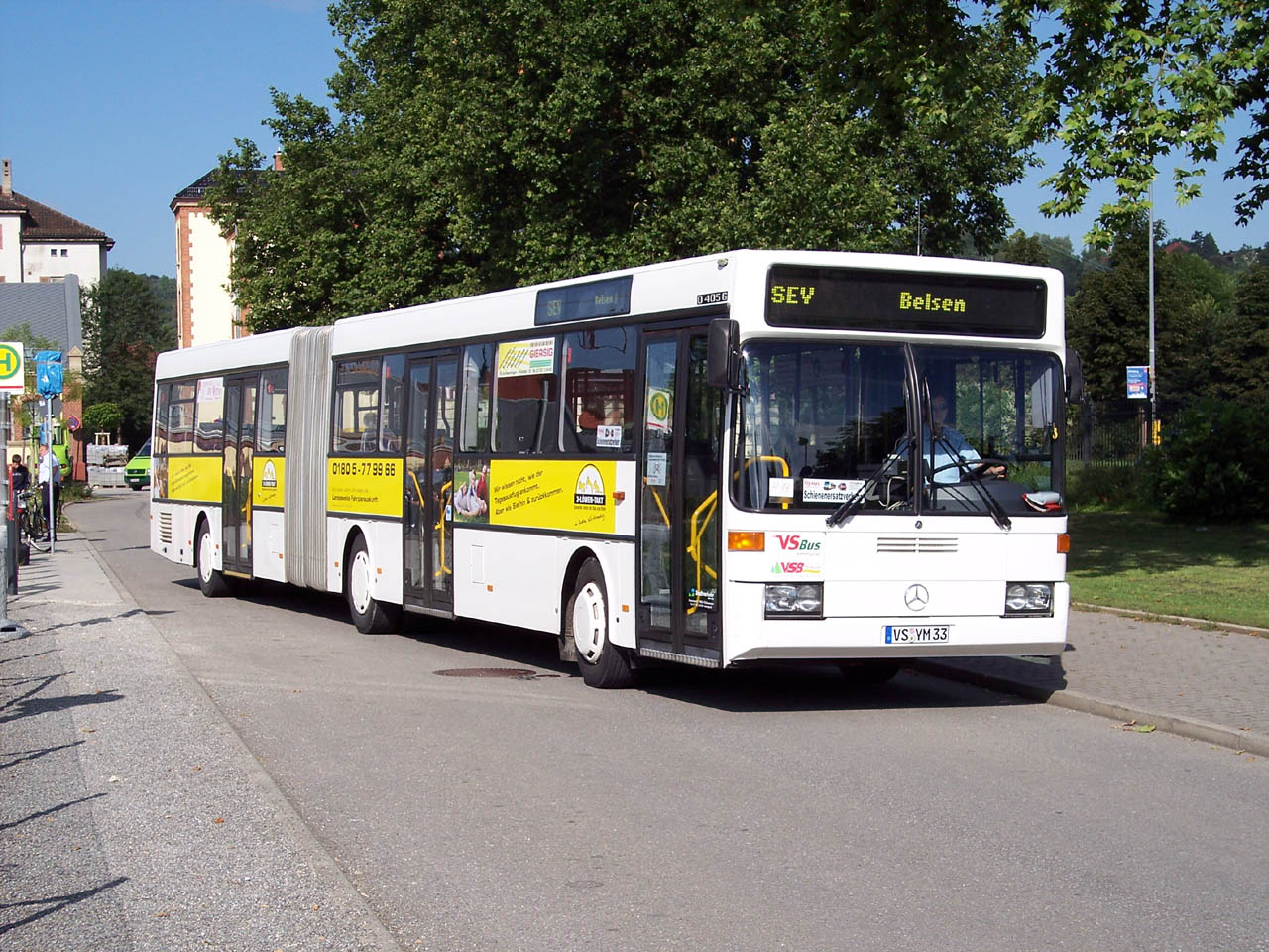 Mercedes-Benz O 405 G articulated bus of VS-Bus of Villingen-Schwenningen, Germany leaves Tübingen Hbf on a rail replacement service to Bad Sebastiansweiler-Belsen.